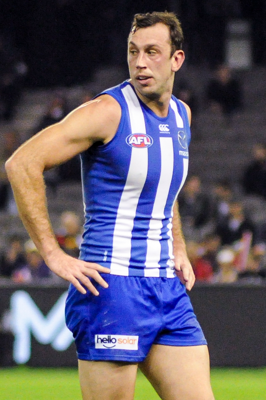 Todd Goldstein during the AFL round thirteen match between North Melbourne and St Kilda on 16 June 2017 at Etihad Stadium in Melbourne, Victoria.